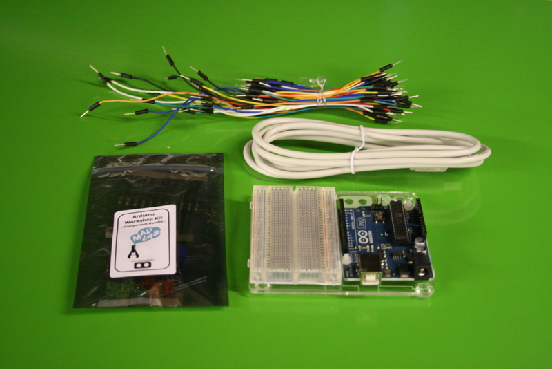 These are some of the components that will be explored during MadLabs 'Beginners Guide to Arduino & Physical Computing' Omniversity course. ‘Physical Computing’ and Arduino devices have made physical interaction affordable and available to non-experts. Whether creating interactive installations, information systems, prototyping products, or making new interfaces, there is a whole world of DIY electronics, interaction design and rapid prototyping available through this platform. This course is available at MadLab, on the 10th of February. See .uk to find out more.